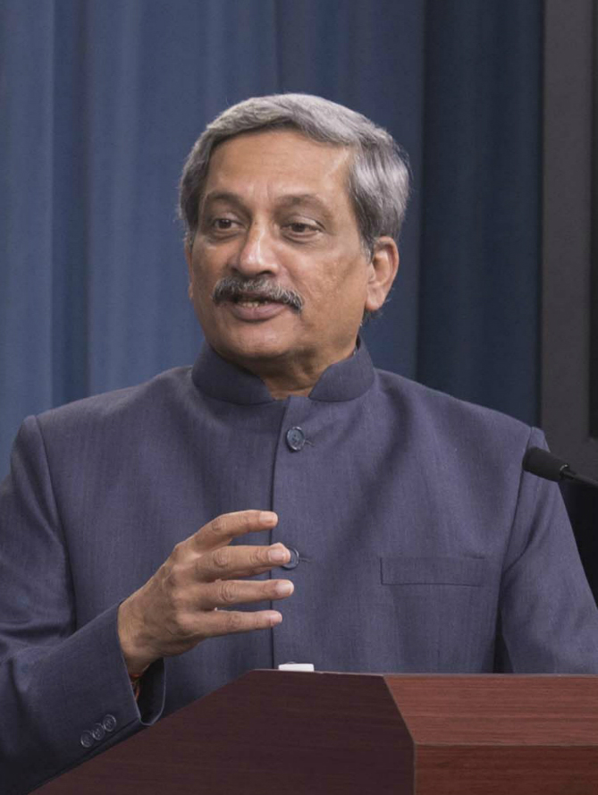 Rakshamantri Manohar Parrikar at a press conference at Washington DC, Aug. 29, 2016.